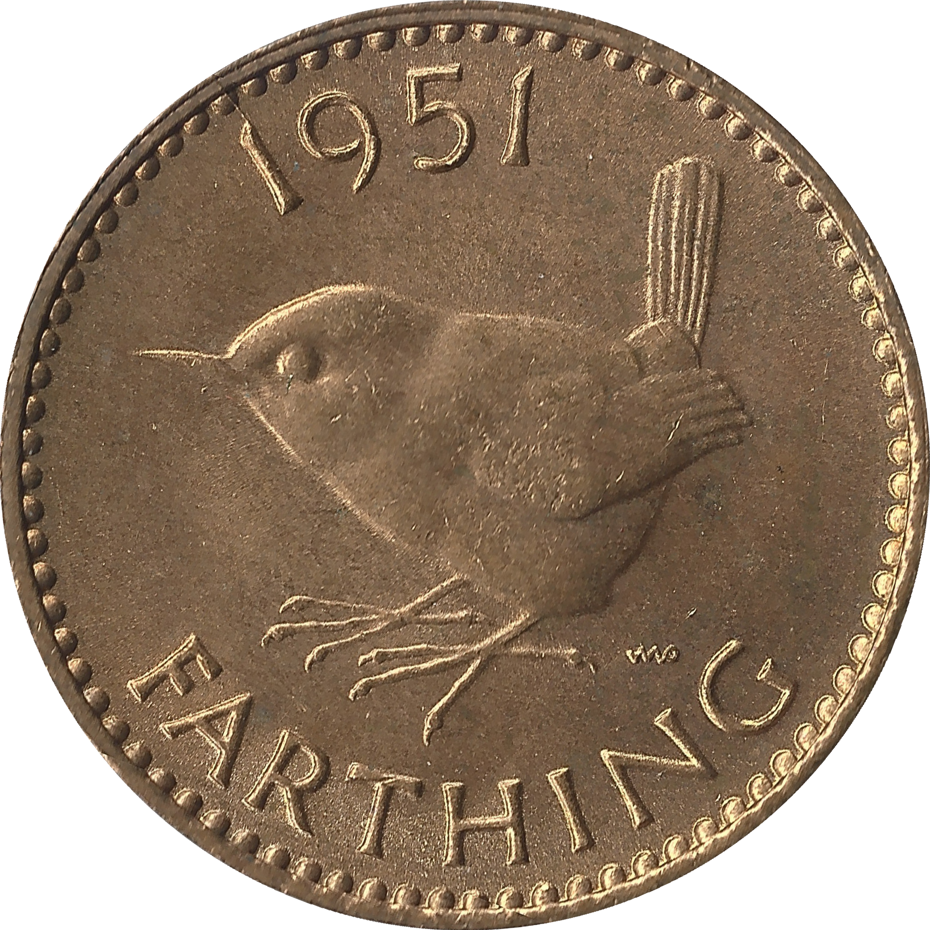 Reverse of the 1951 British farthing